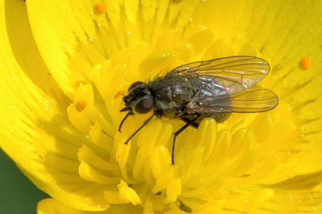 Picture taken in Commanster, Belgian High Ardennes . Species: female Anthomyiidae.